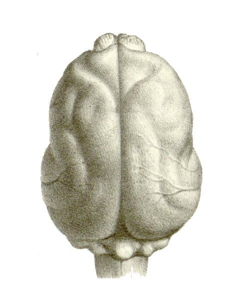 brain 's Potos flavus